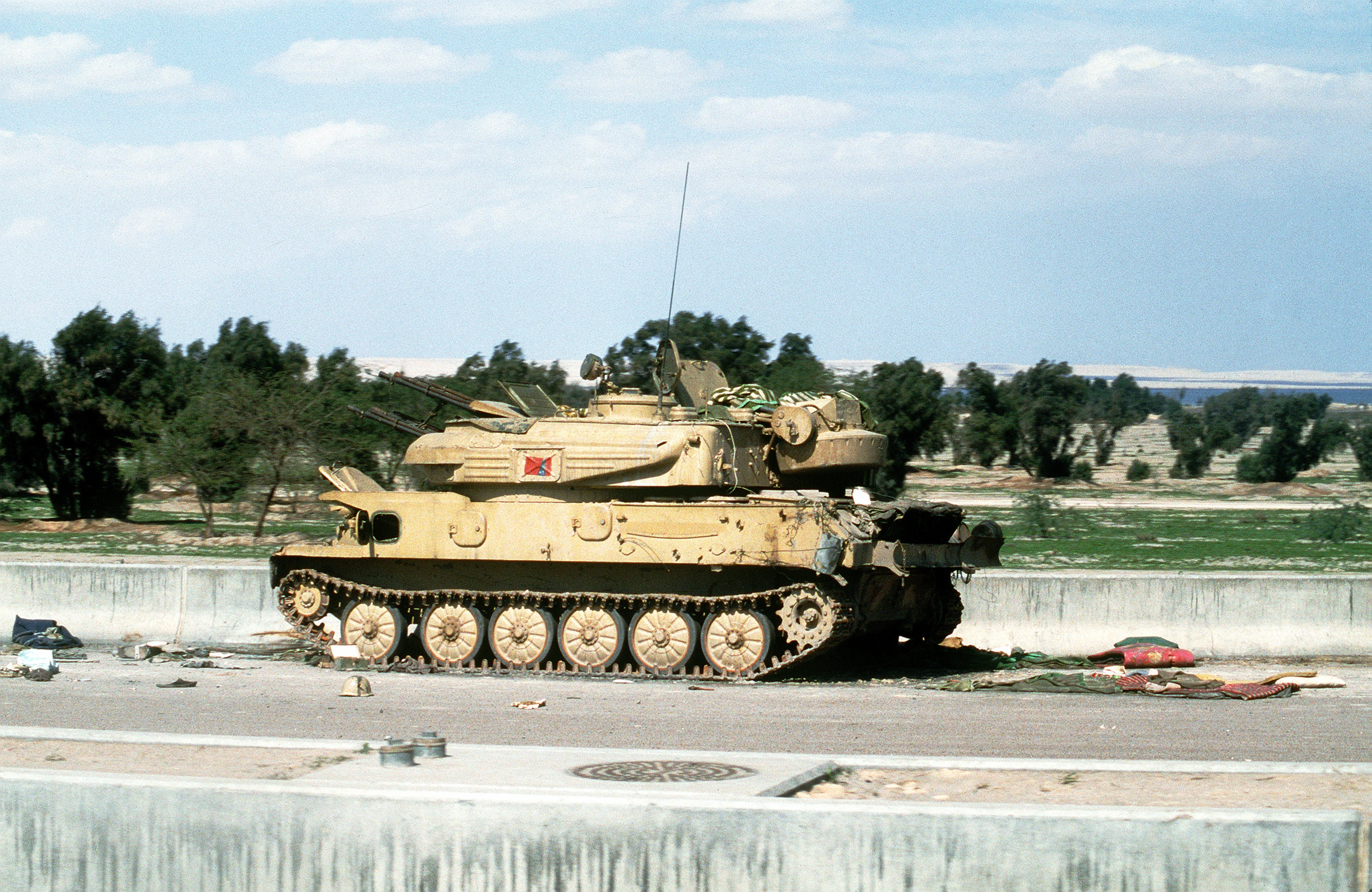 An Iraqi ZSU-23-4 self-propelled 23mm anti-aircraft gun system sits on a road after being abandoned during Operation Desert Storm.